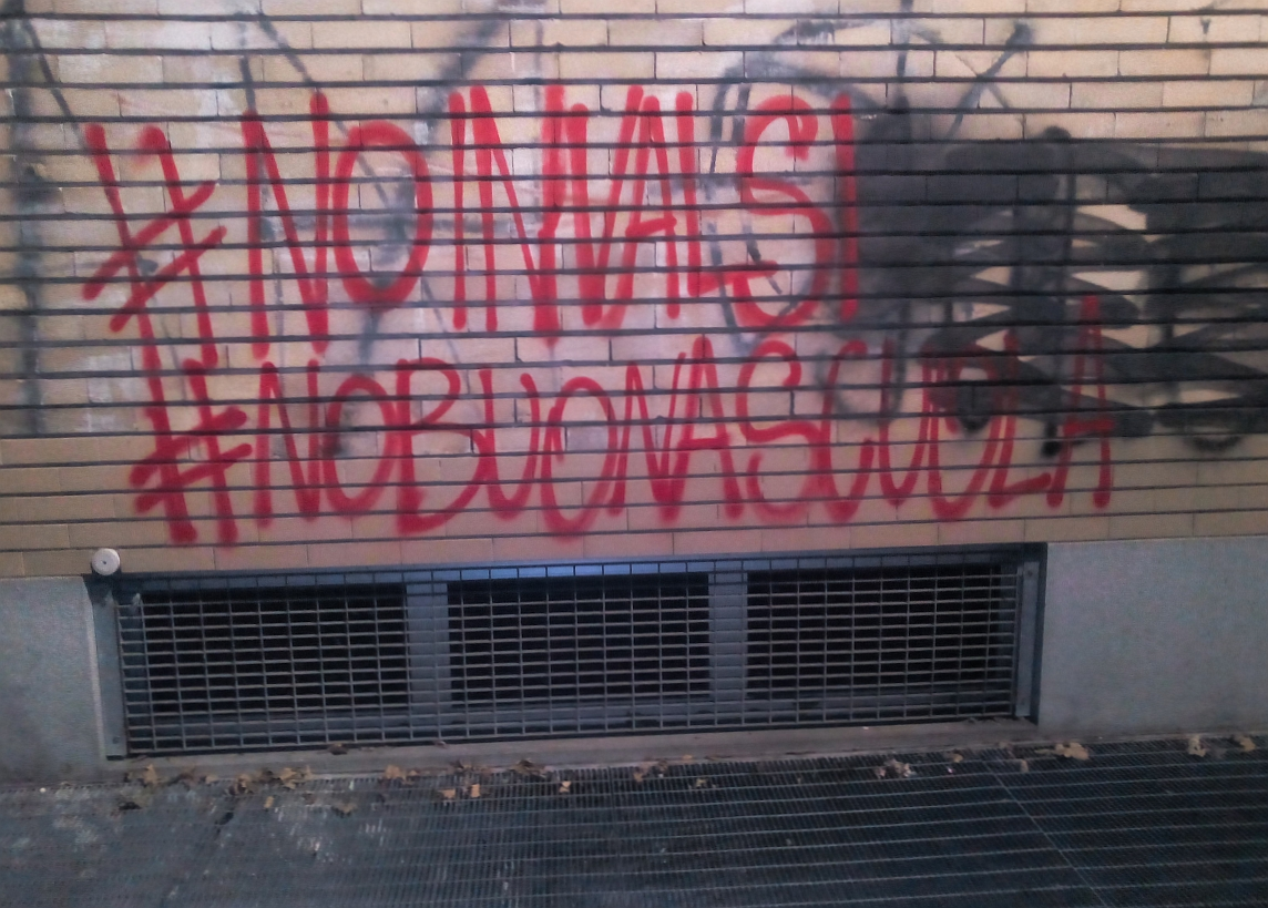 #NOINVALSI #NOBUONASCUOLA, graffiti in Turin (nearby Politecnico)